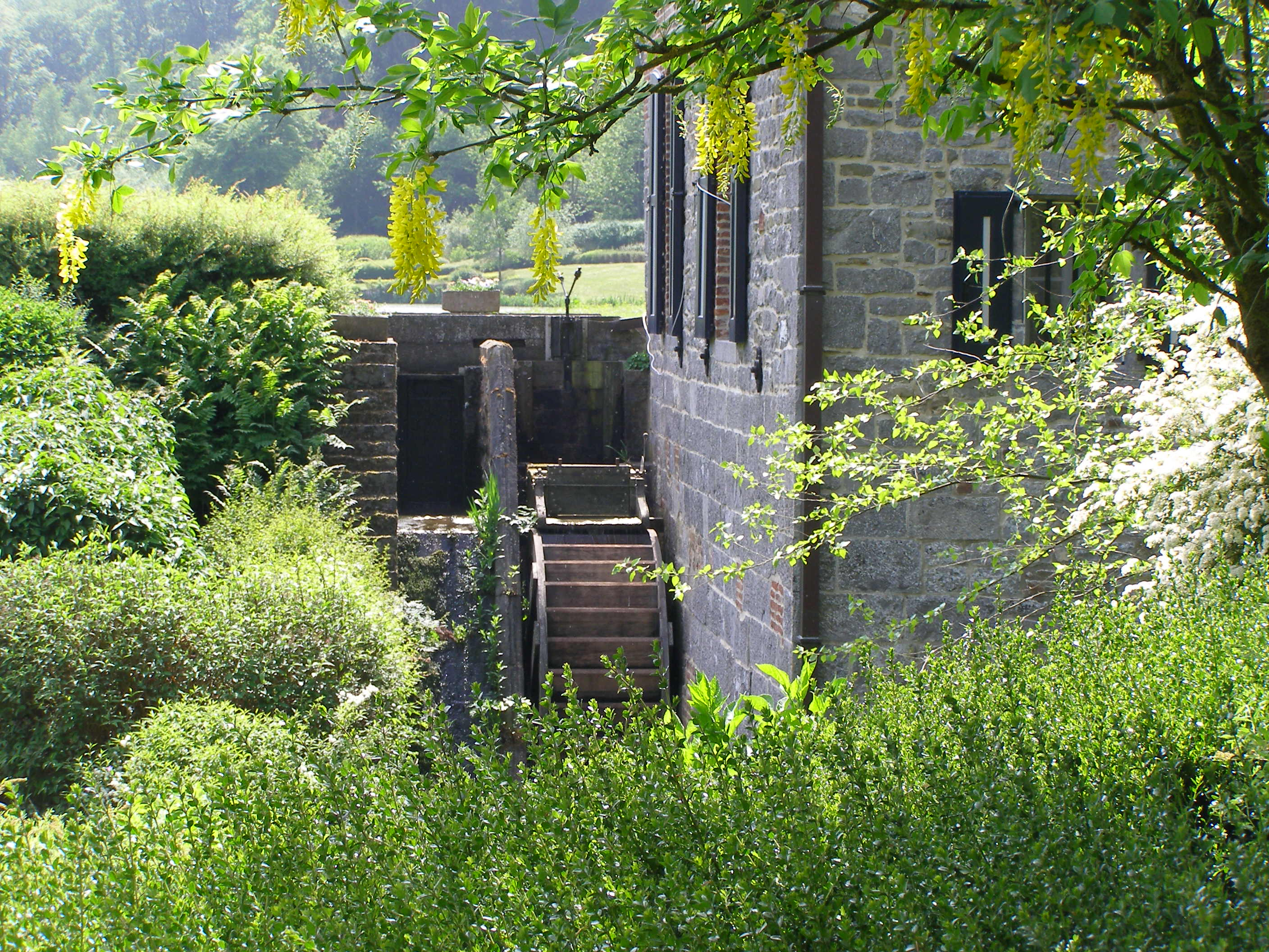 The mill at Reumont Solrinnes.